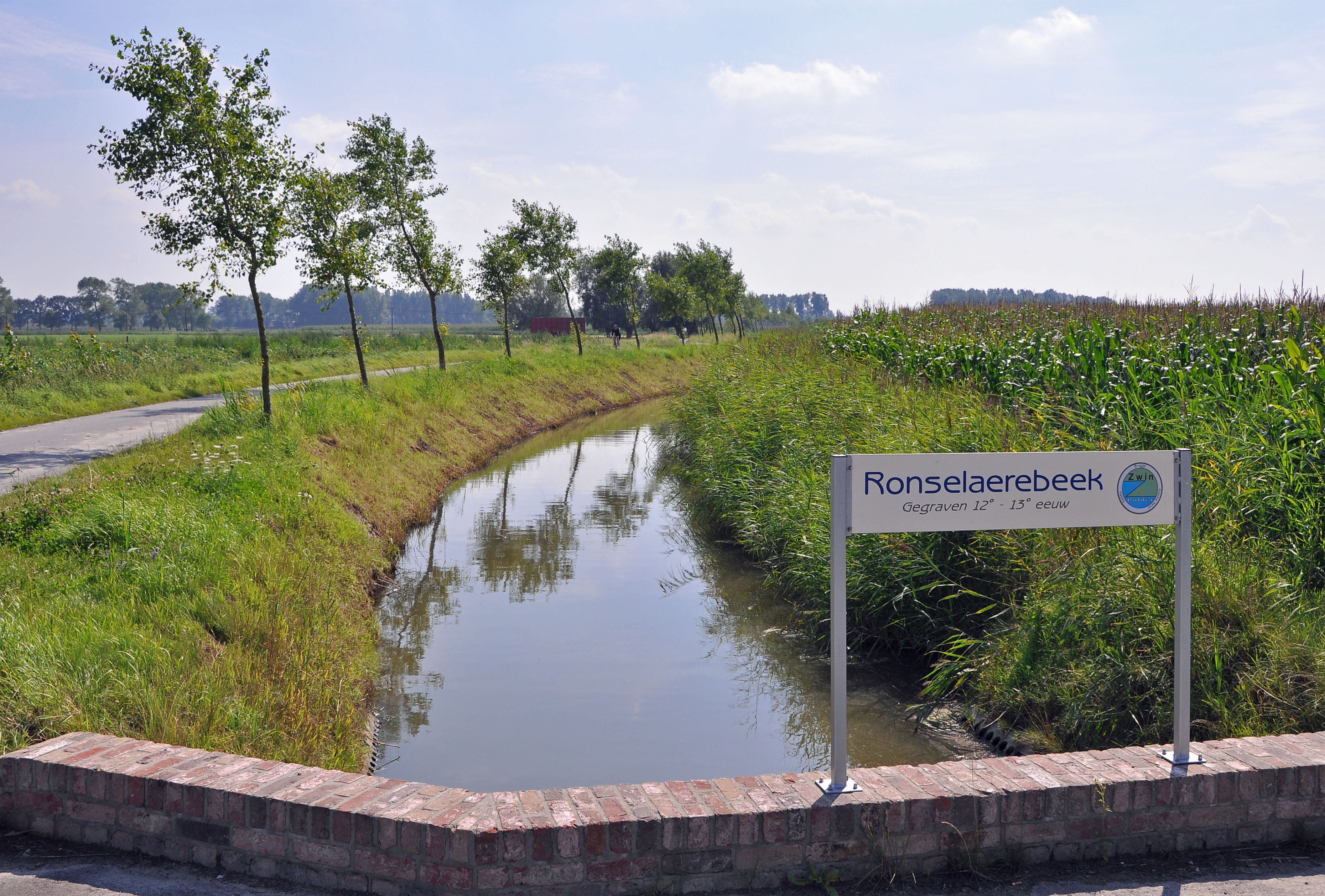 Dudzele (Bruges, Belgium): the Ronselaere brook